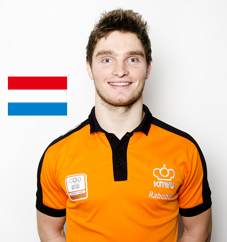 cyclist